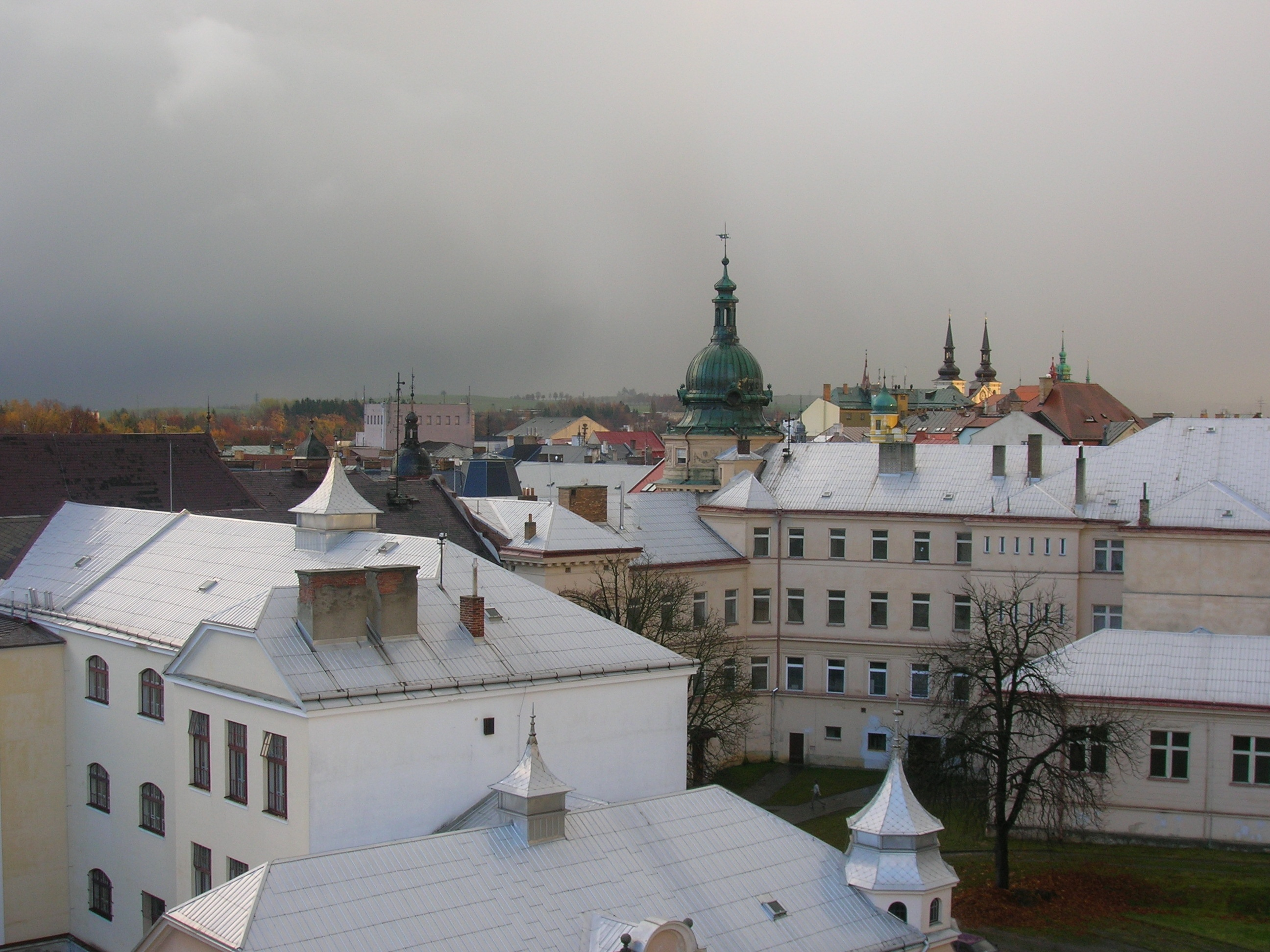 Jihlava. Legionářů Street. Inner block